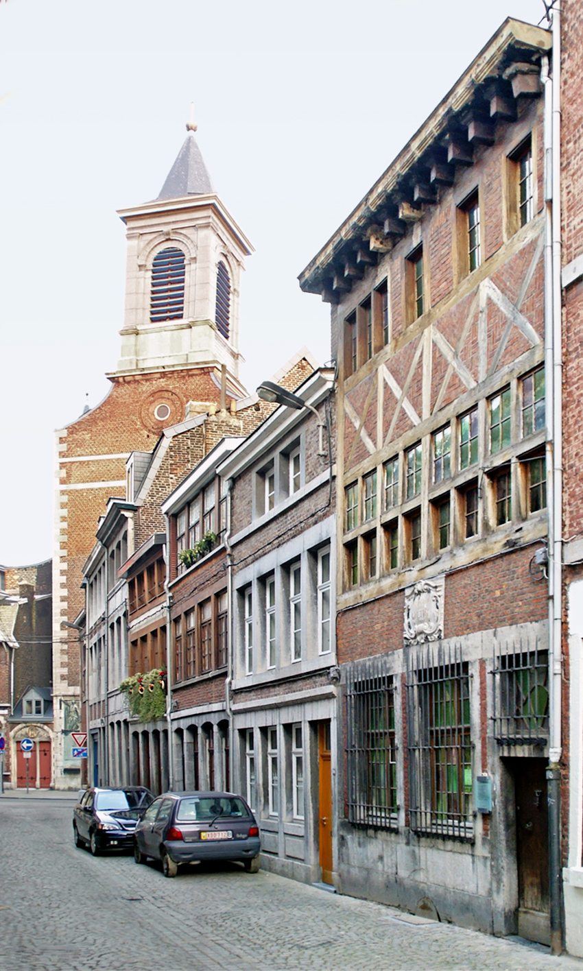 Birthplace of André Grétry in Liège; in the background the church Saint-Nicolas